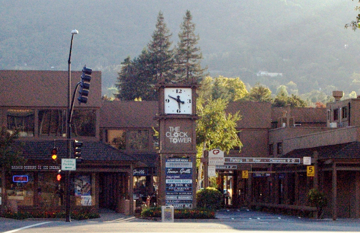 The Clock Tower square located in the heart of downtown Danville, CA.